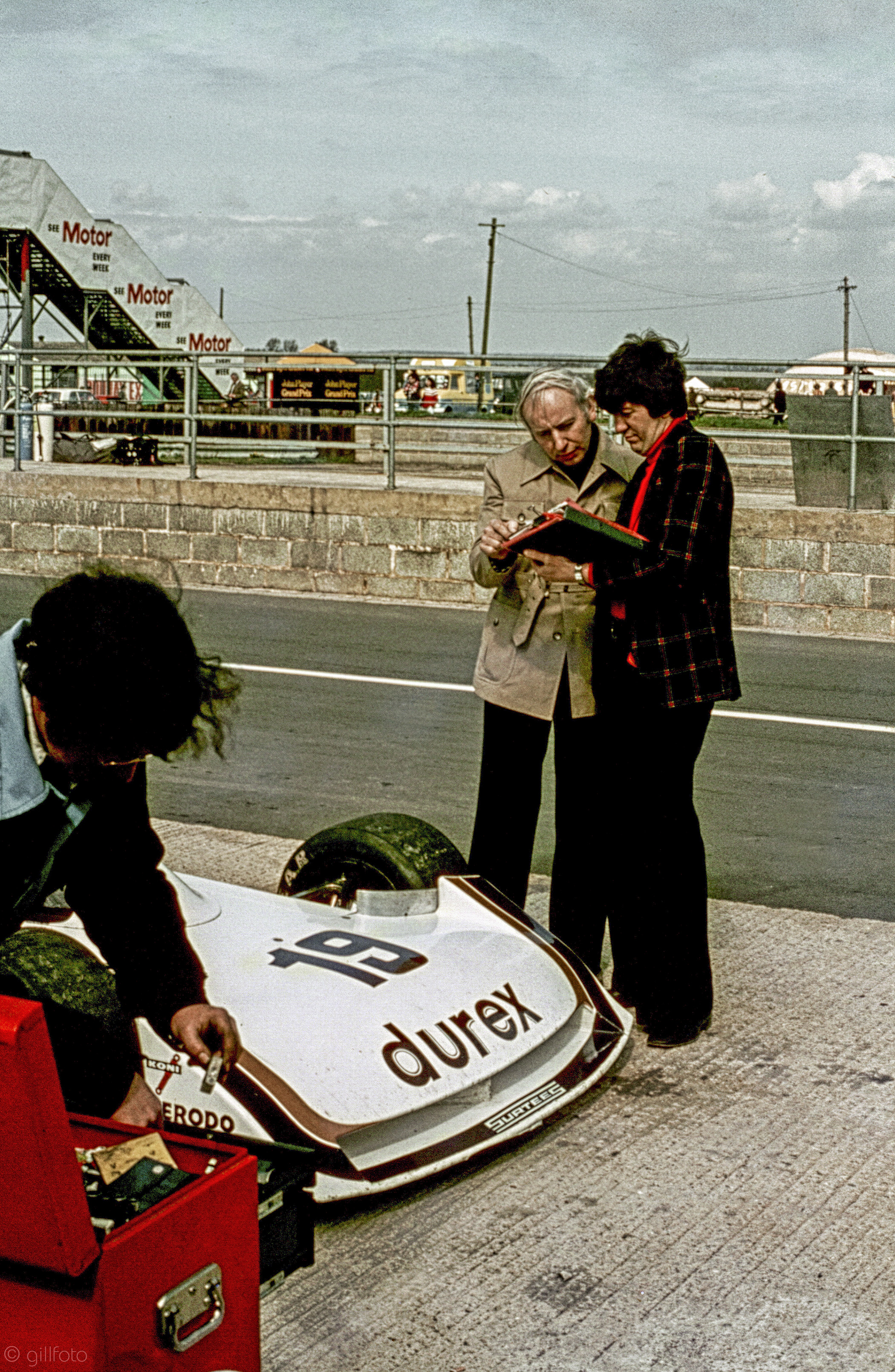 John Surtees (pit lane)with Alan Jones (driver) Team Surtees (GB) Finished 8th at the Graham Hill International Trophy, Silverstone 1976.